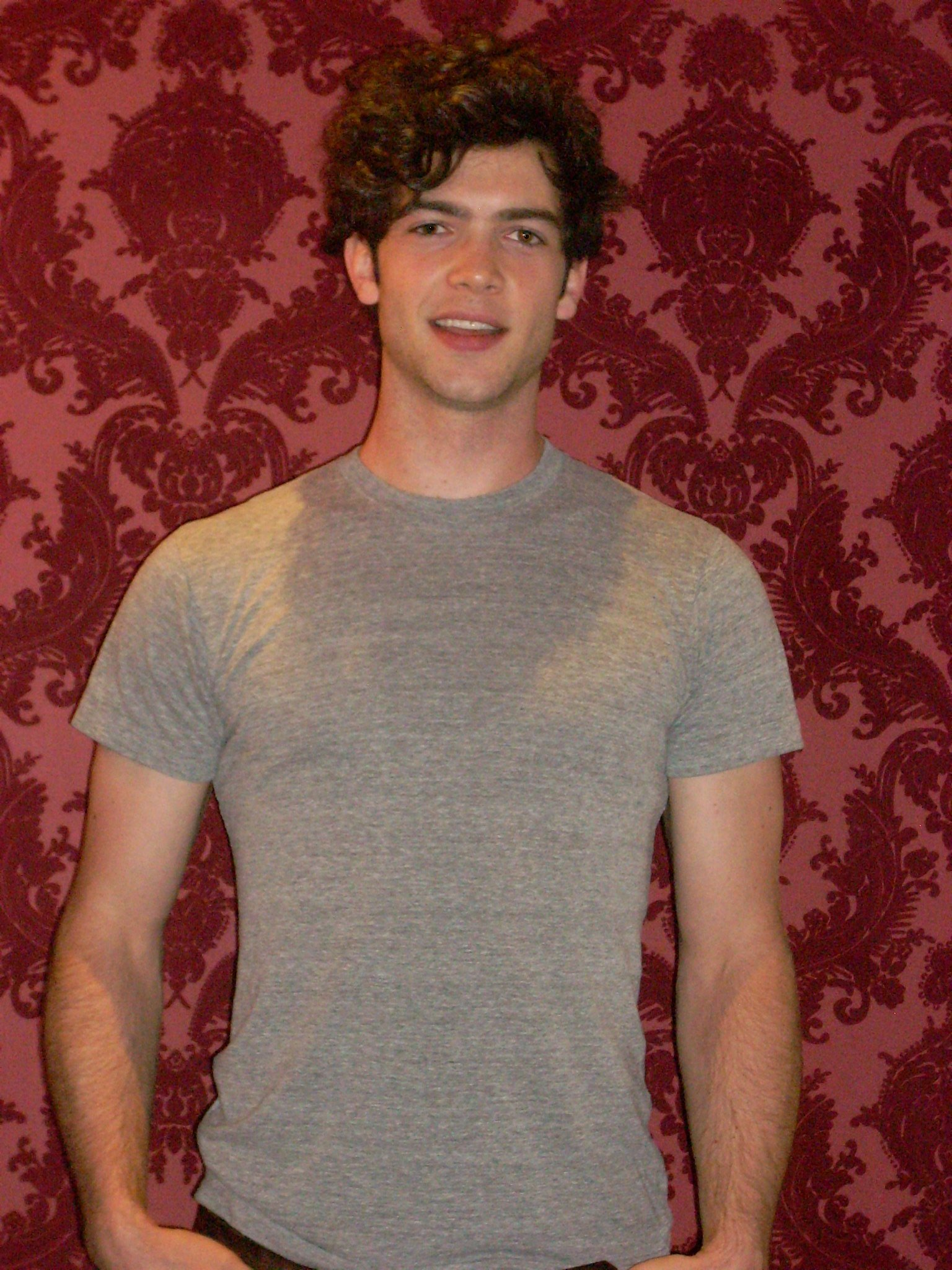 Ethan Peck at the "10 Things I Hate About You" Junket, Hollywood, Calif. - June 19, 2009